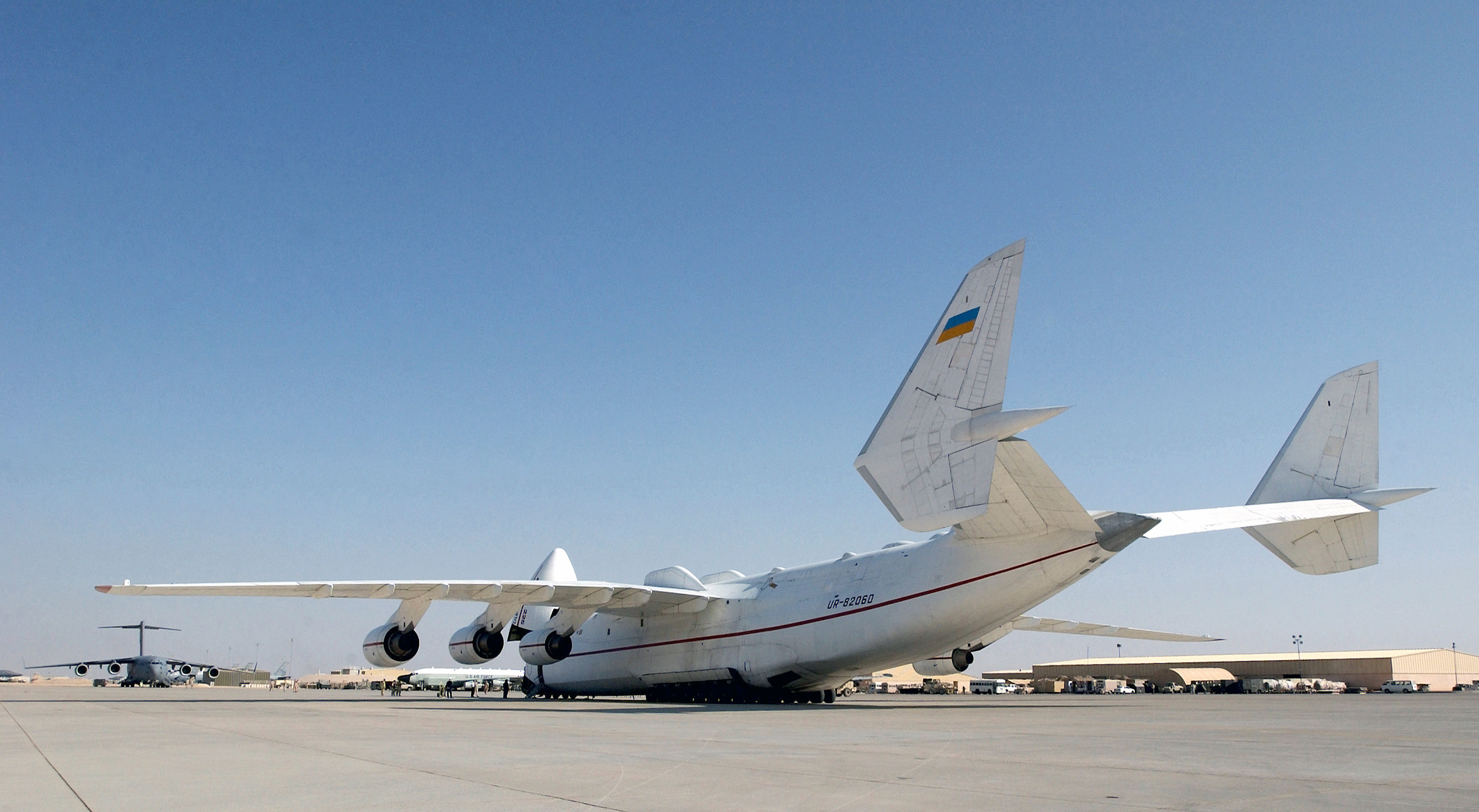 Across the ramp from a C-17A Globemaster III, a Ukrainian Antonov AN-225 Mriya, the largest aircraft in the world, downloads supplies for the 405th Air Expeditionary Wing (AEW) during Operation ENDURING FREEDOM.